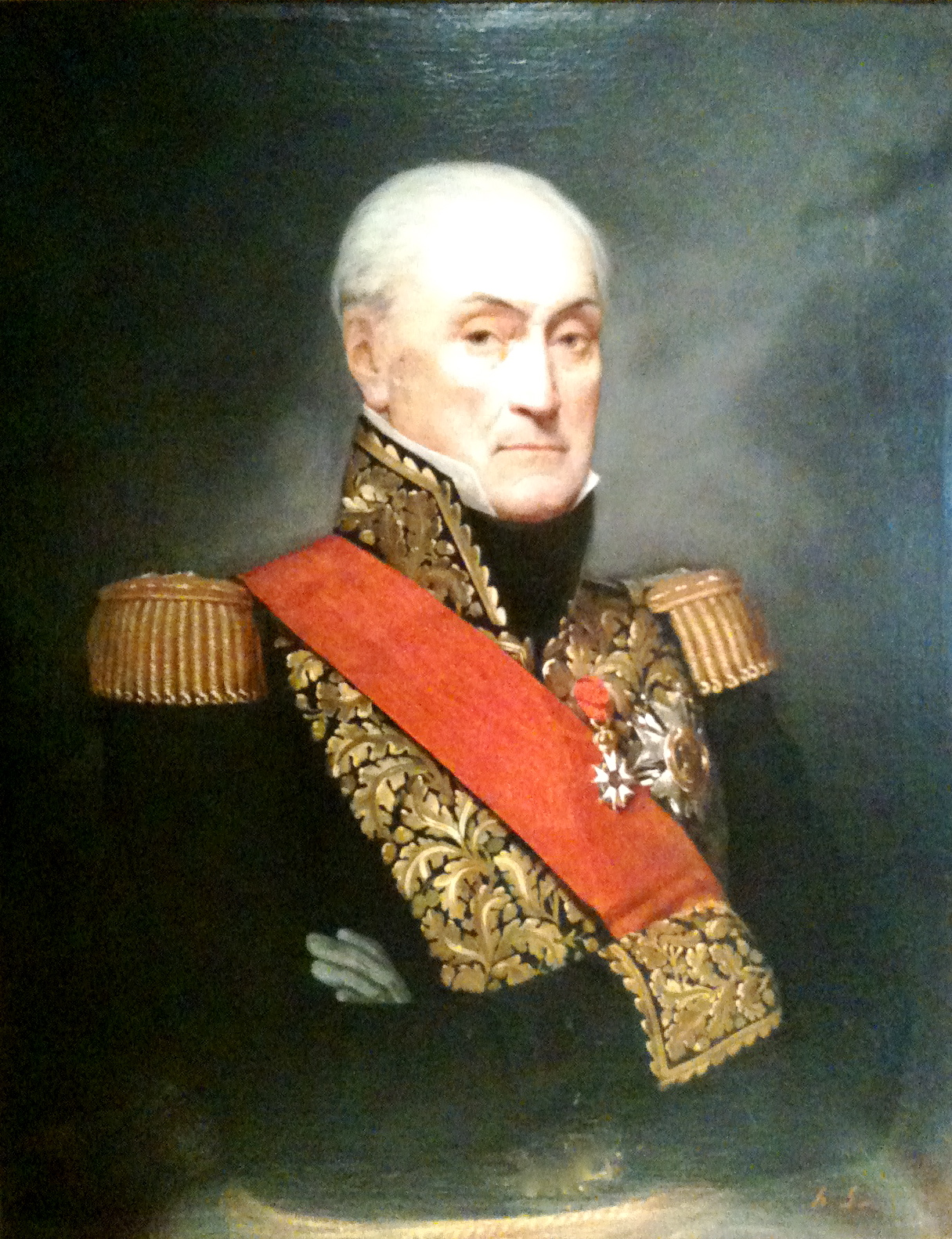 General Joseph Souham. Photograph of Souham's portrait, held at the Musée de la Légion d'Honneur in Paris.